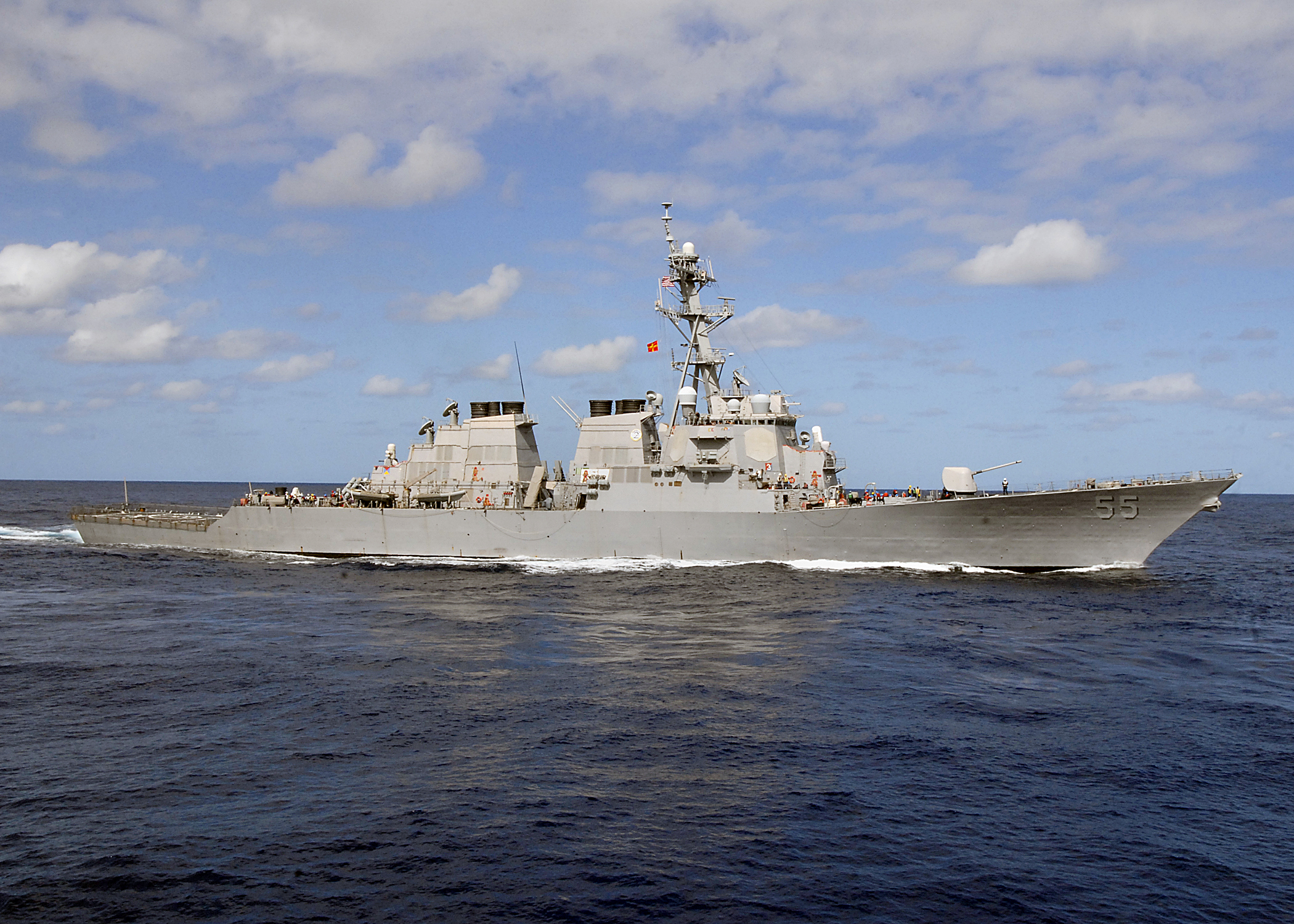 ATLANTIC OCEAN (Sept. 26, 2010) The guided-missile destroyer USS Stout (DDG 55) is underway during routine training operations. Bainbridge is preparing to participate in Joint Warrior 10-2, a multinational exercise designed to improve interoperability between allied navies and prepare participating crews to conduct combined operations during deployment. (U.S. Navy photo by Mass Communication Specialist Seaman Anna Wade/Released)